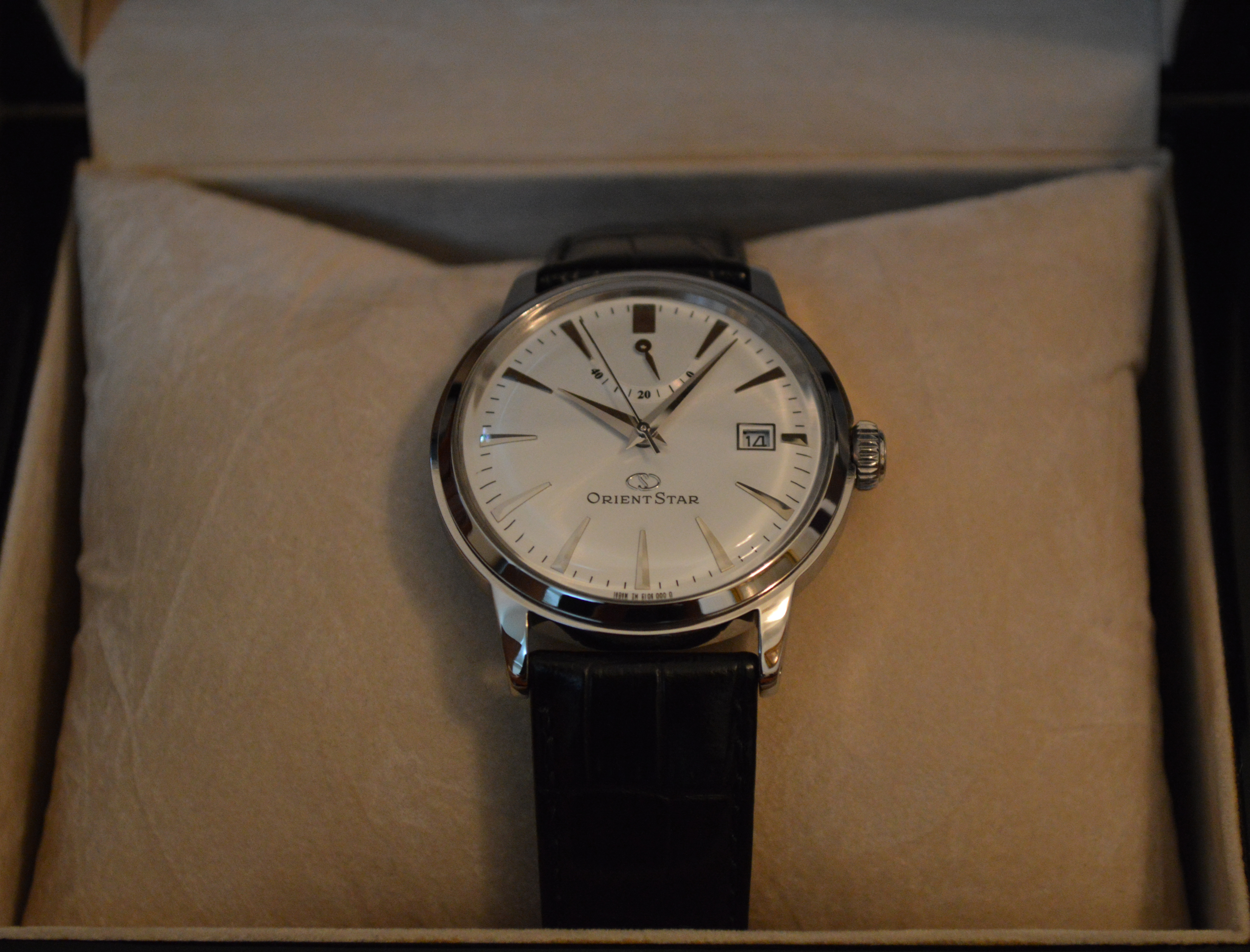 Orient Star - EL05004W